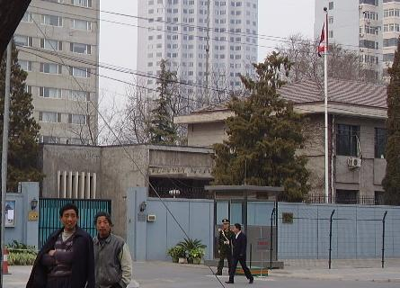 Nepalese Embassy in Beijing